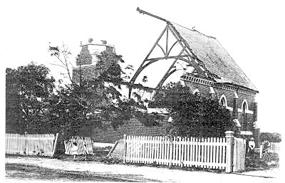 The Methodist Church, Hawthorn Road, Brighton, Australia, destroyed in the Brighton tornado on February 2nd, 1918. Source: Brighton Historical Society. [1]